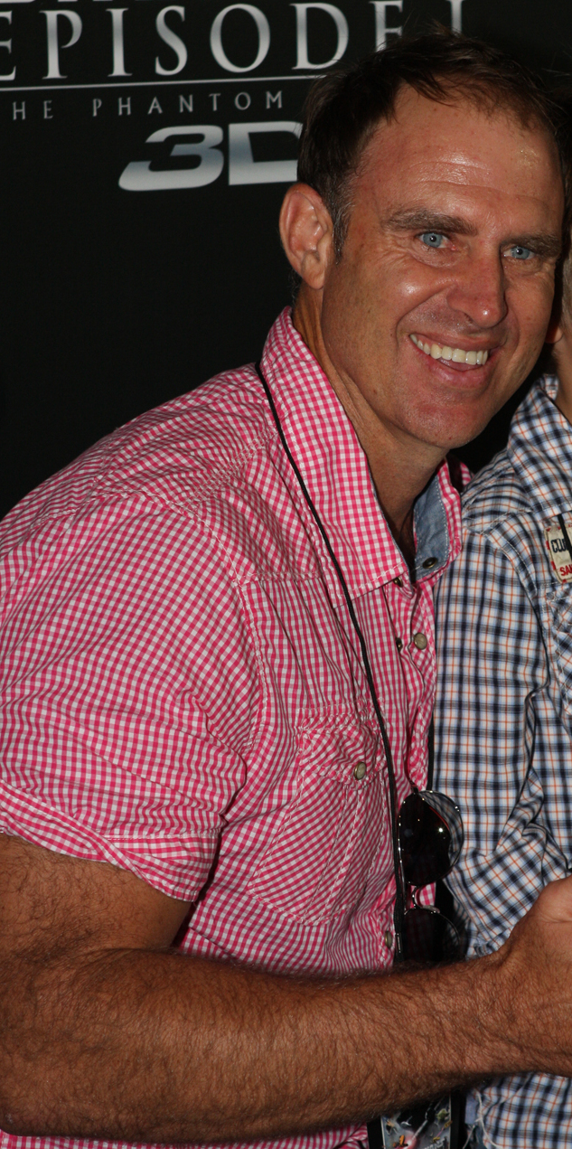 Australian cricketer Matthew Hayden at Star Wars: Episode 1